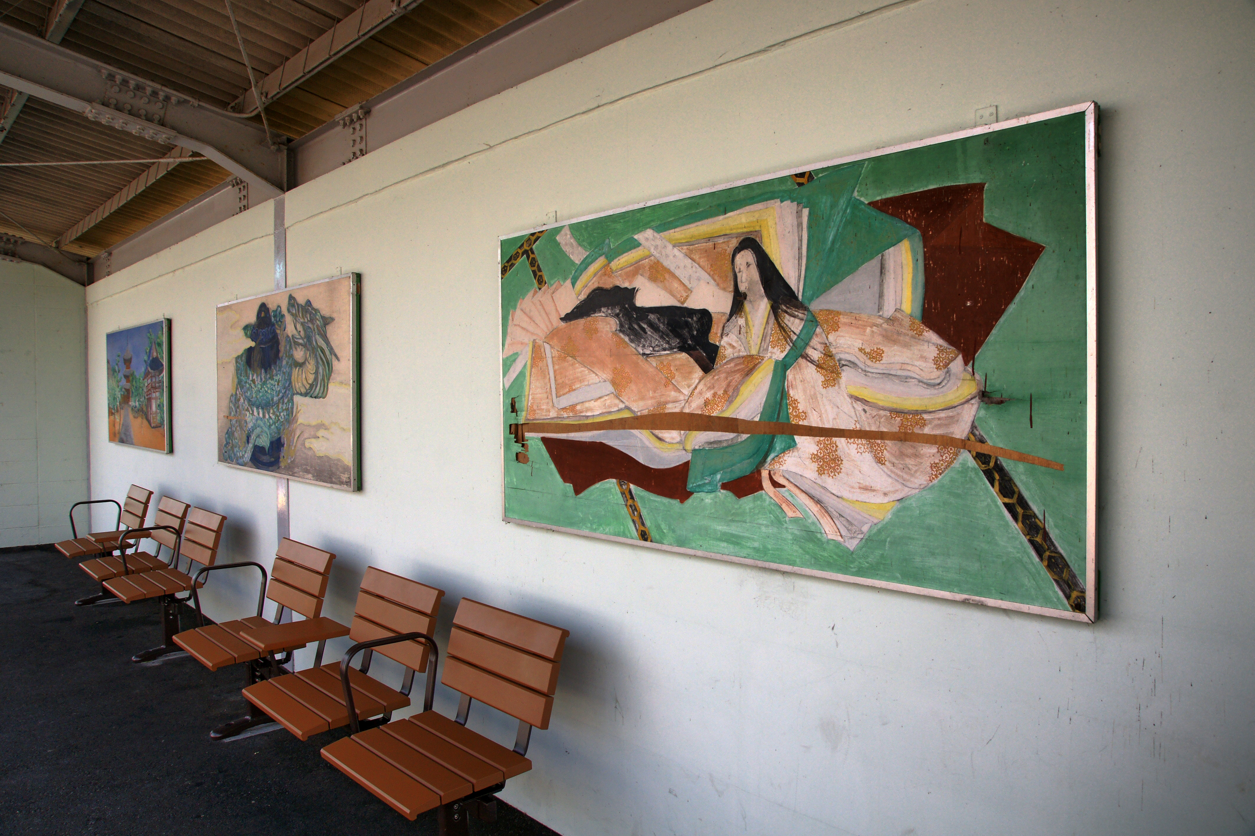 Dojoji Station, Gobo, Wakayama prefecture, Japan